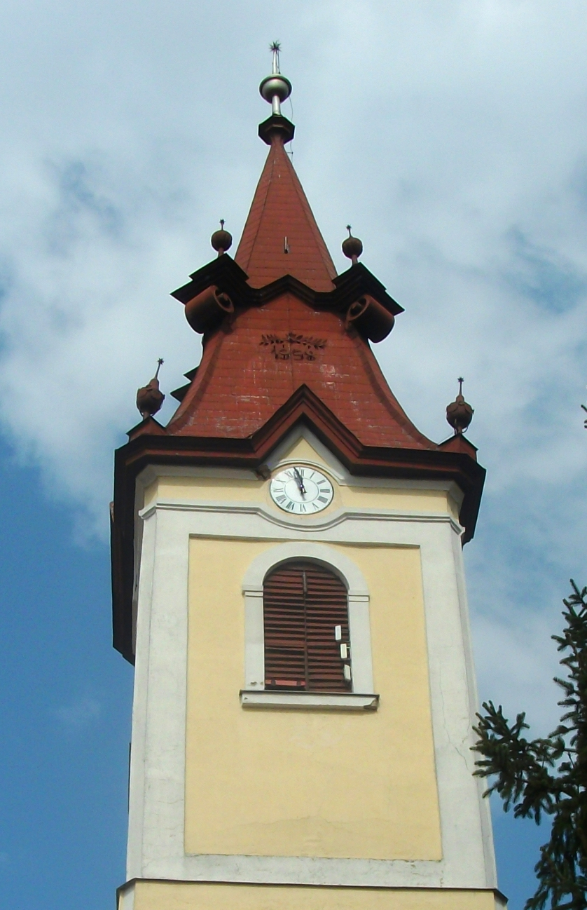 Reformed Church of Cigánd